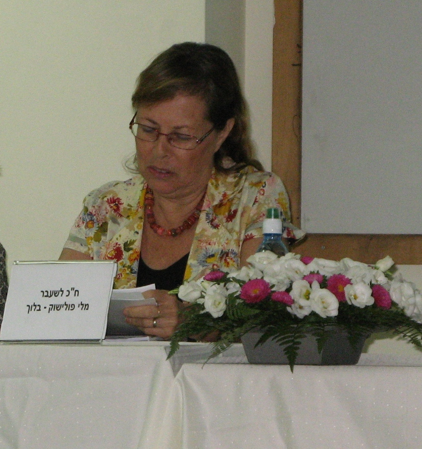 Former Knesset member Mel Polyshook-Bloch